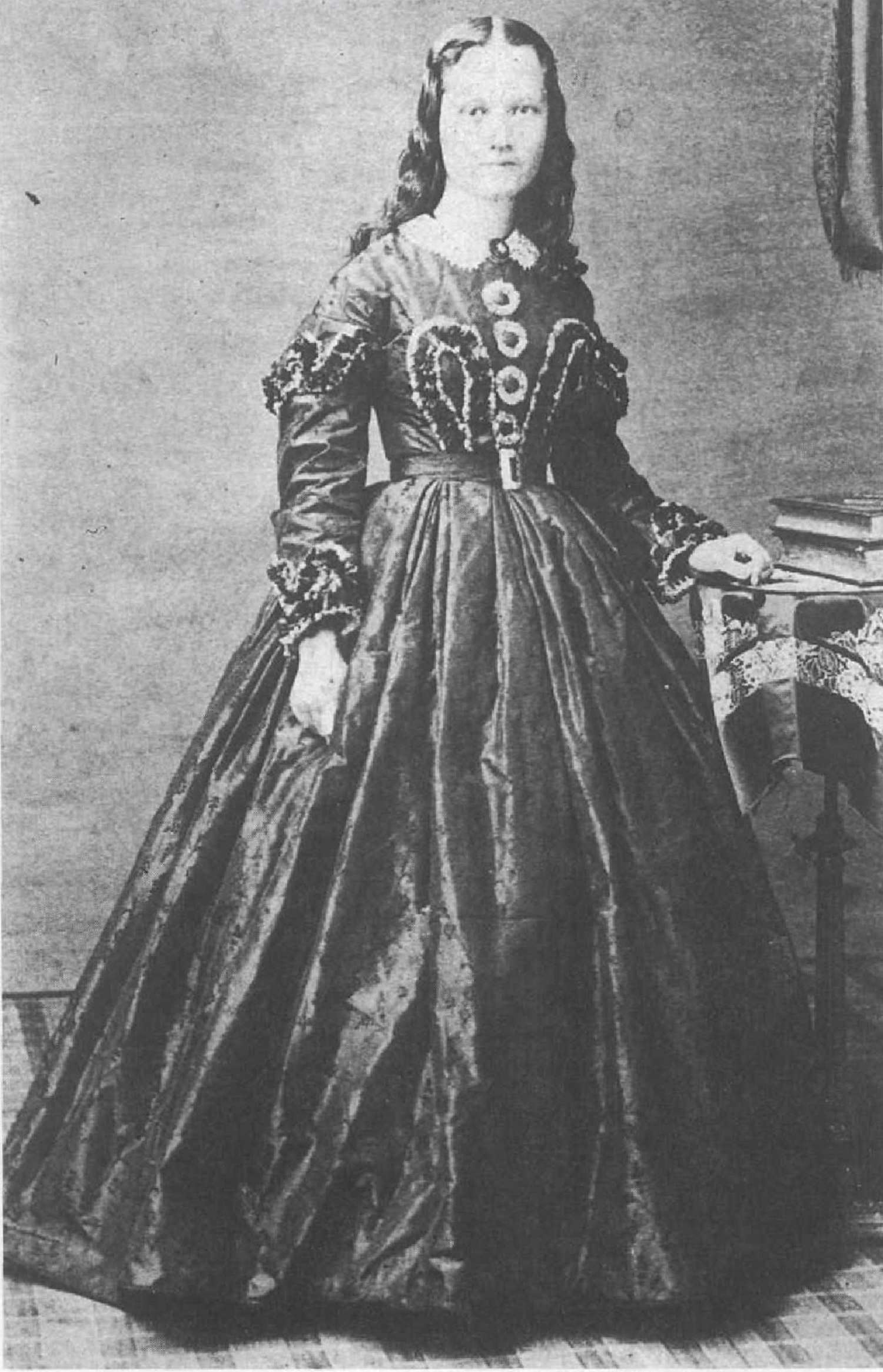 Mary Elizabeth Mikahala Robinson Foster (1844-1930) was the daughter of a shipwrecked sailor, John James Robinson and Rebecca Prever, daughter of Kamakana, a Maui chiefess. She was sister of Mark P. Robinson, who served as Queen Liliuokalani's Minister of Foreign Affairs. She married Thomas R. Foster, the owner of a shipyard, a shipping agency and a number of schooners. After meeting Anagarika Dharmapala in 1893, she showed an interest in Buddhisim and was instrumental in its establishment in Hawaii. Her legacy was the Foster Botanical Garden, which she bequeathed to the City and County of Honolulu, with the provision that the city accept and forever keep and properly maintain the (gardens) as a public and tropical park to be known and called Foster Park. At the time, the gardens were roughly 5.5 acres (2 ha).